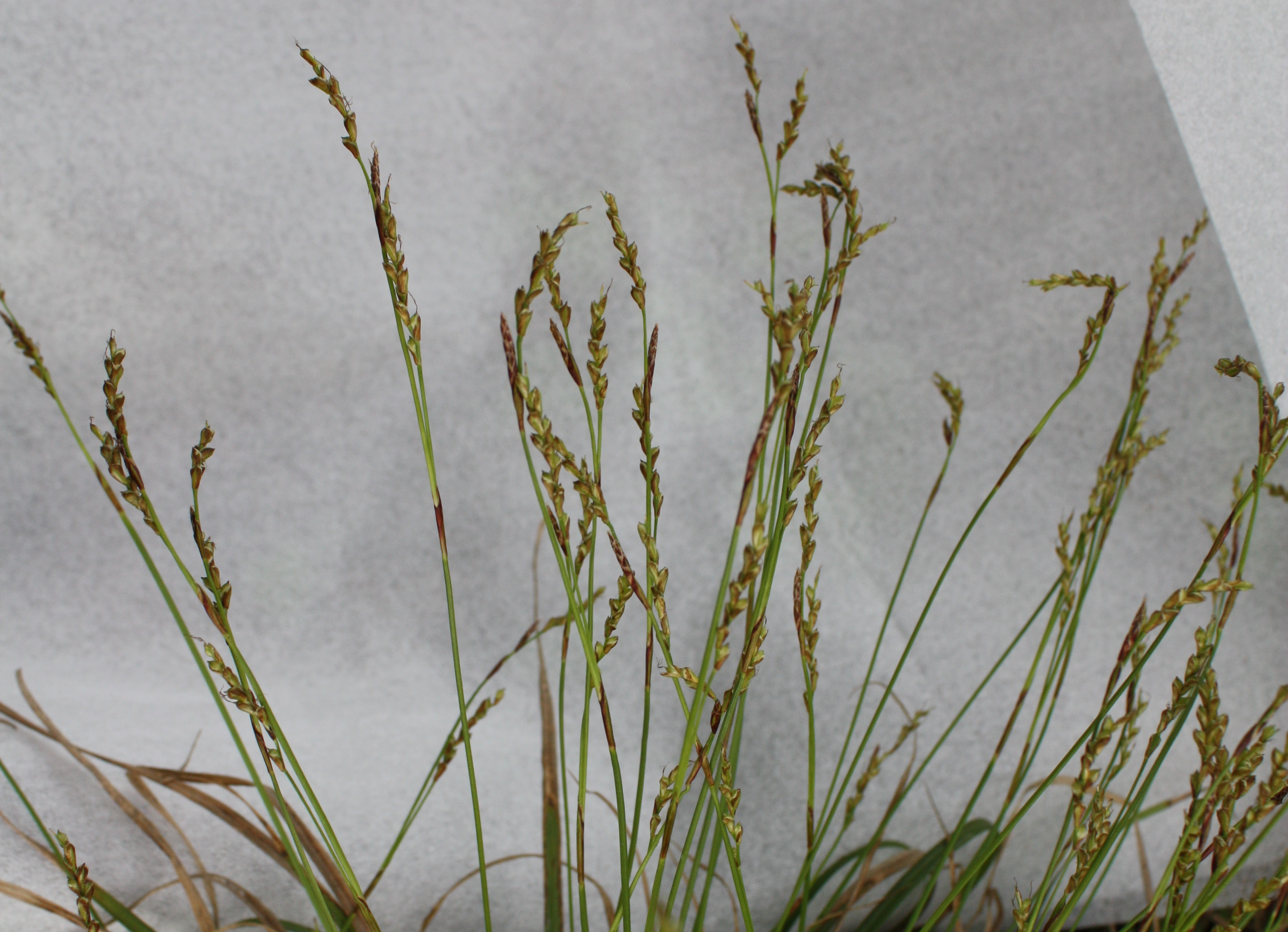 Fingered Sedge (Carex digitata) - Kerava, Finland